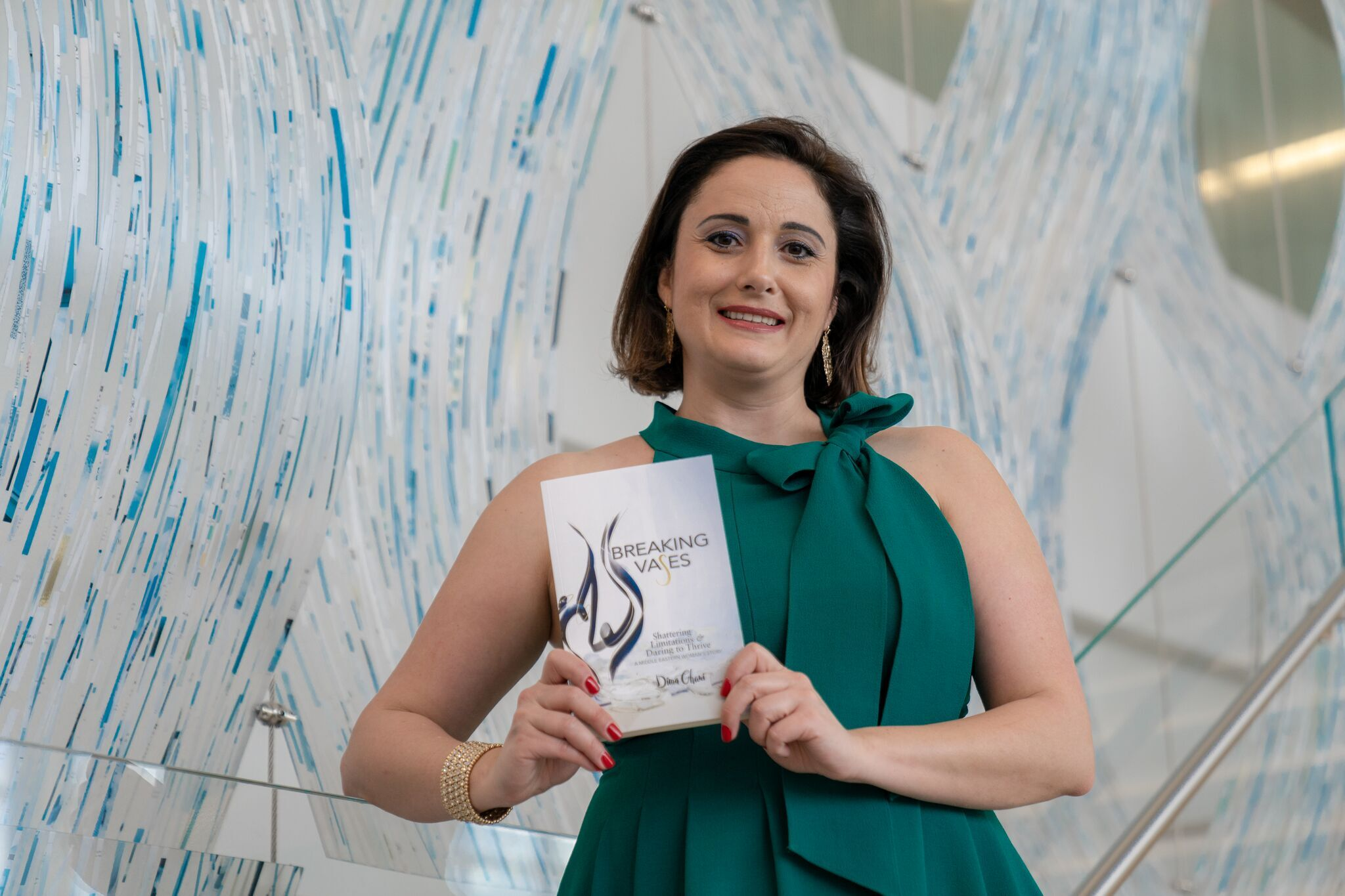 Dima Ghawi holding her award-winning book, Breaking Vases: Shattering Limitations and Daring to Thrive - A Middle Eastern Woman's Story